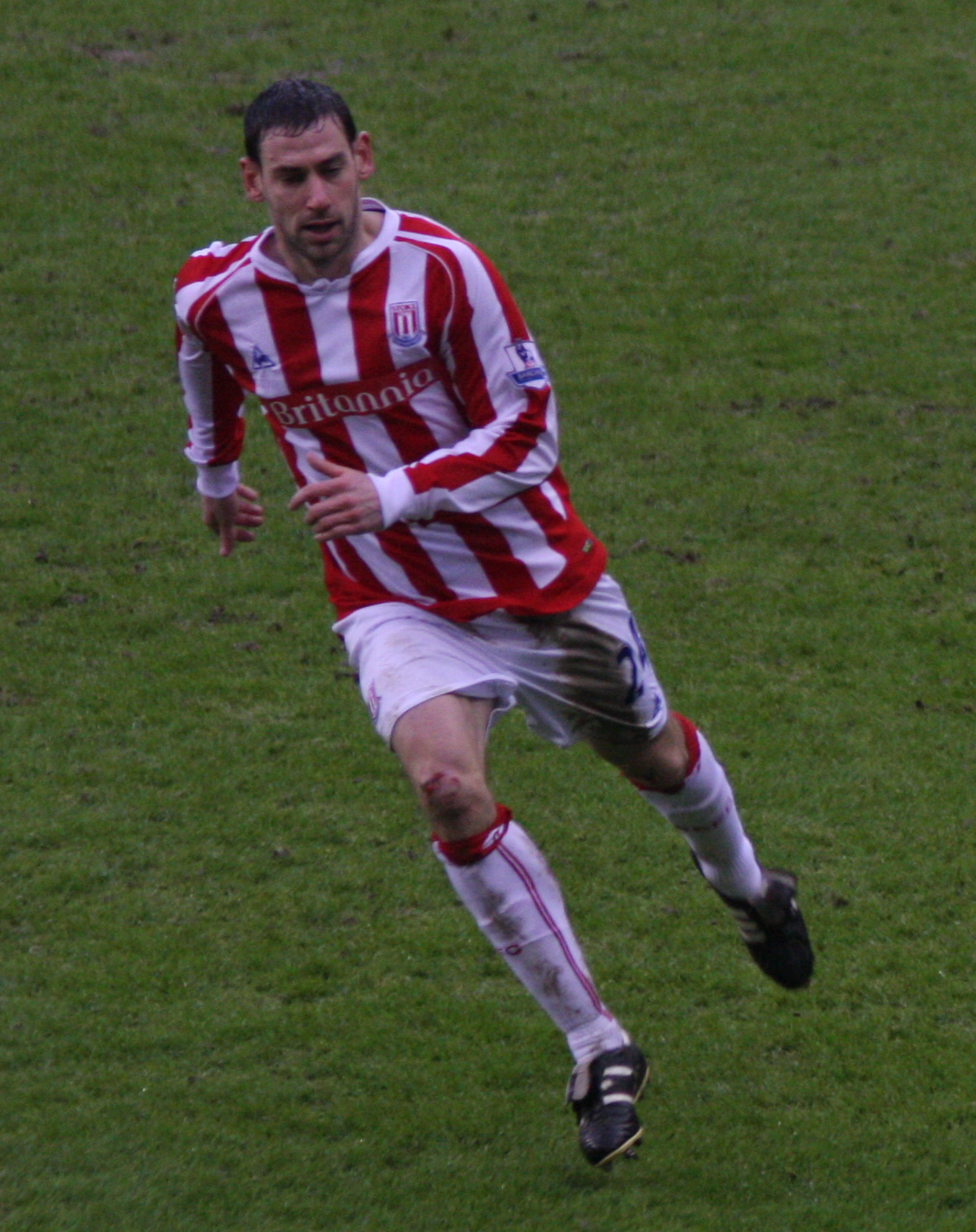 Stoke City FC V Arsenal 41